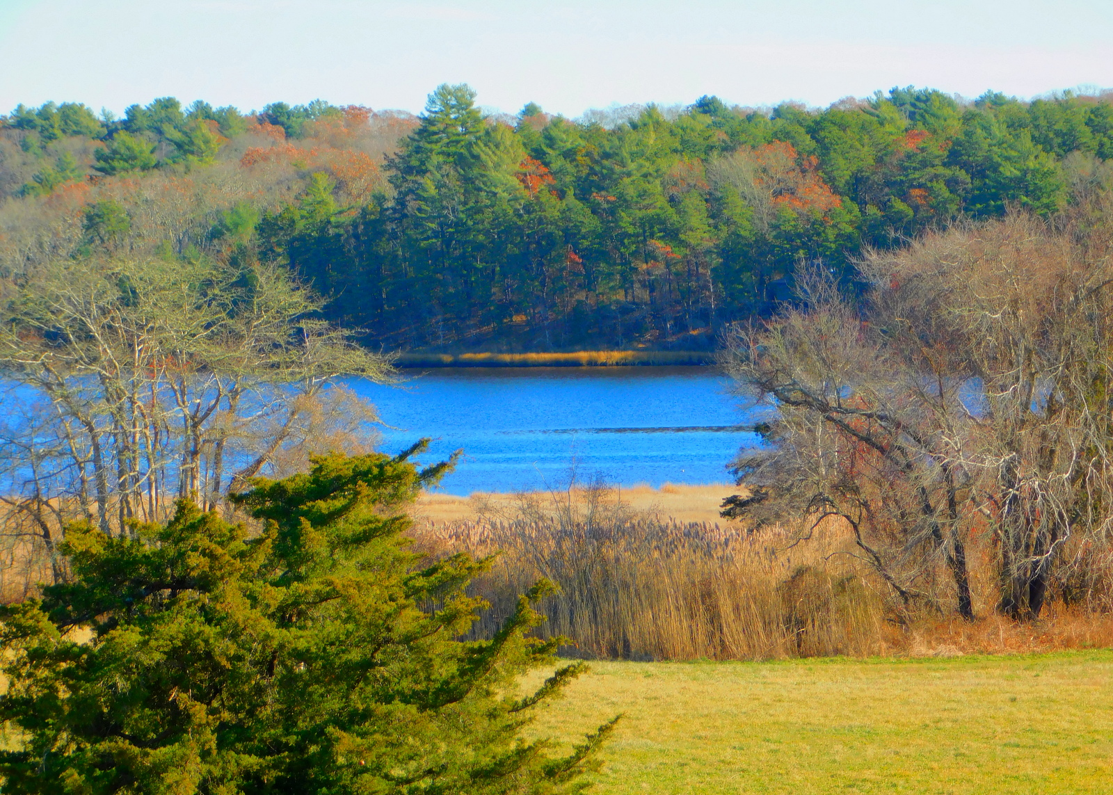 A photo of the Westport River in Massachusetts, USA taken November 2019.